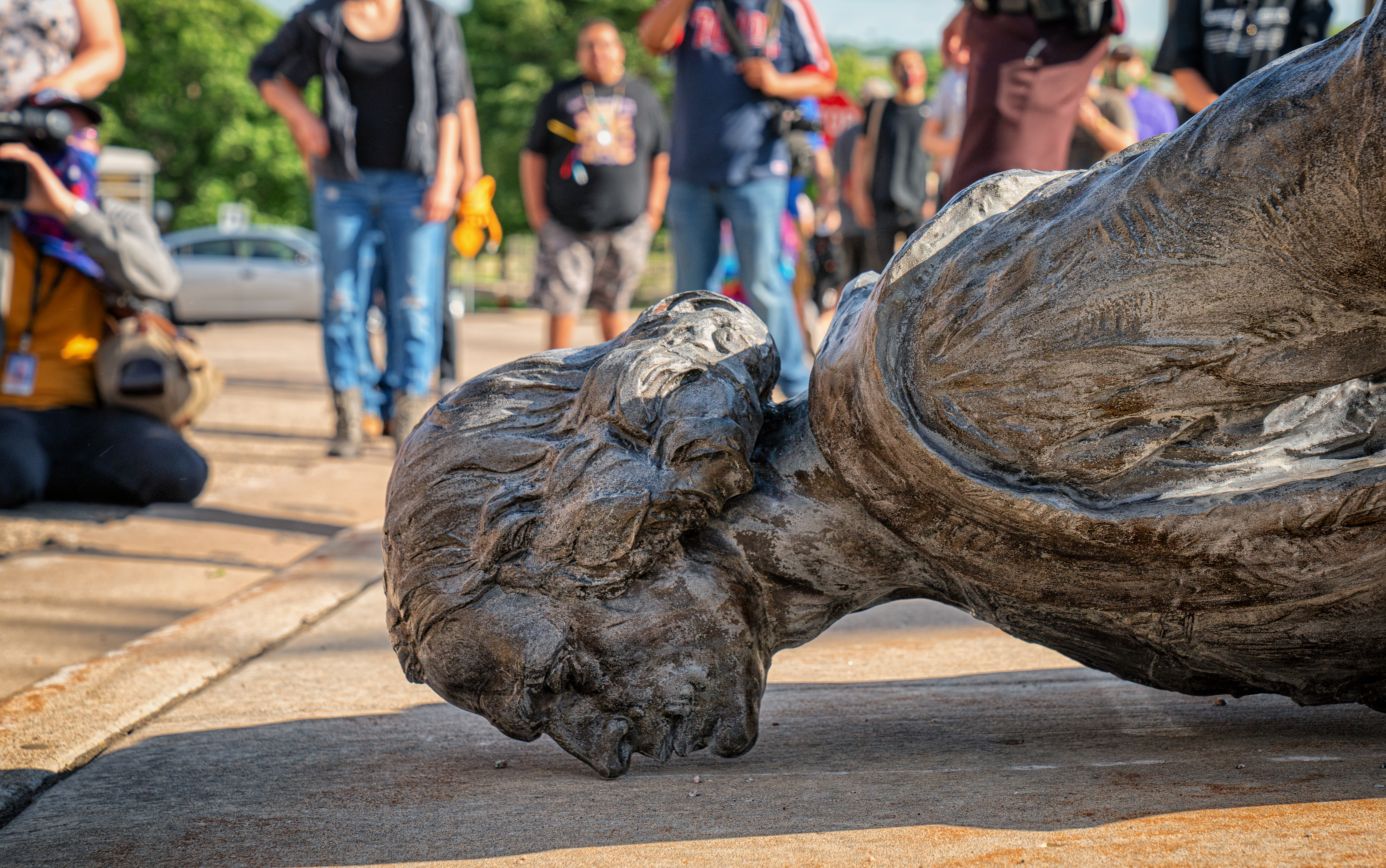 The fallen Christopher Columbus statue outside the Minnesota State Capitol after a group led by American Indian Movement members tore it down in St. Paul, Minnesota, on June 10, 2020.